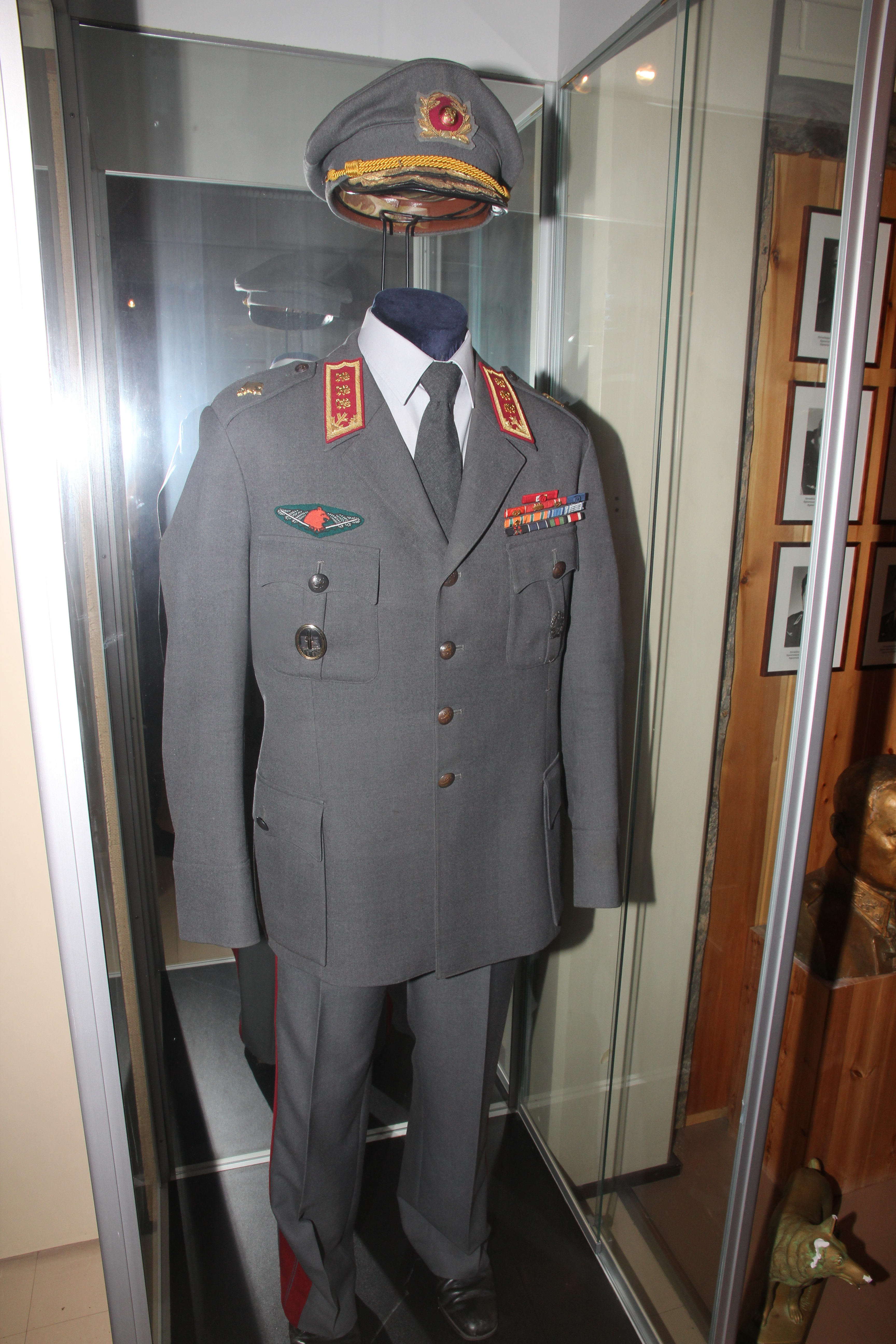 Parade uniform m/58 of lieutenant general Otto Ylirisku in Imatra Border Museum.